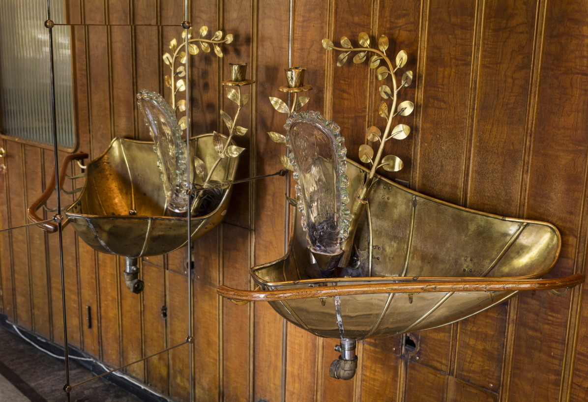 FOTOGRAFIBiografen Park innan stängning. -FOTOGRAF: Ek, Mattias.BILDNUMMER:Stadsmuseet i Stockholm